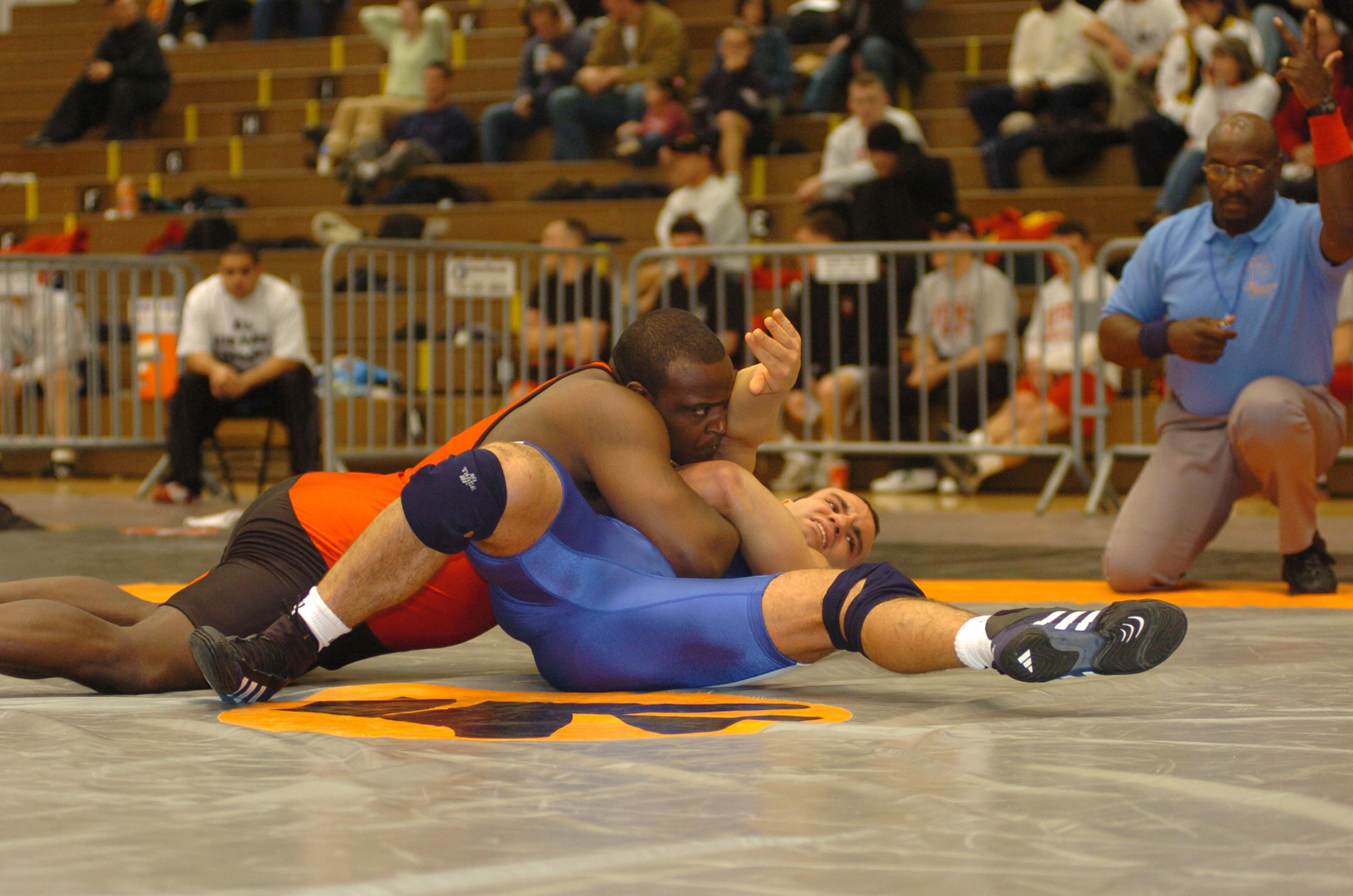 April 6, 2005 Army Staff Sgt. Dremiel Byers (left), the 2002 Greco-Roman heavyweight world champion, defeats Air Force 1st Lt. David Hunter in the 120-kilogram/264.5-pound Greco division of the 2005 Armed Forces Wrestling Championships